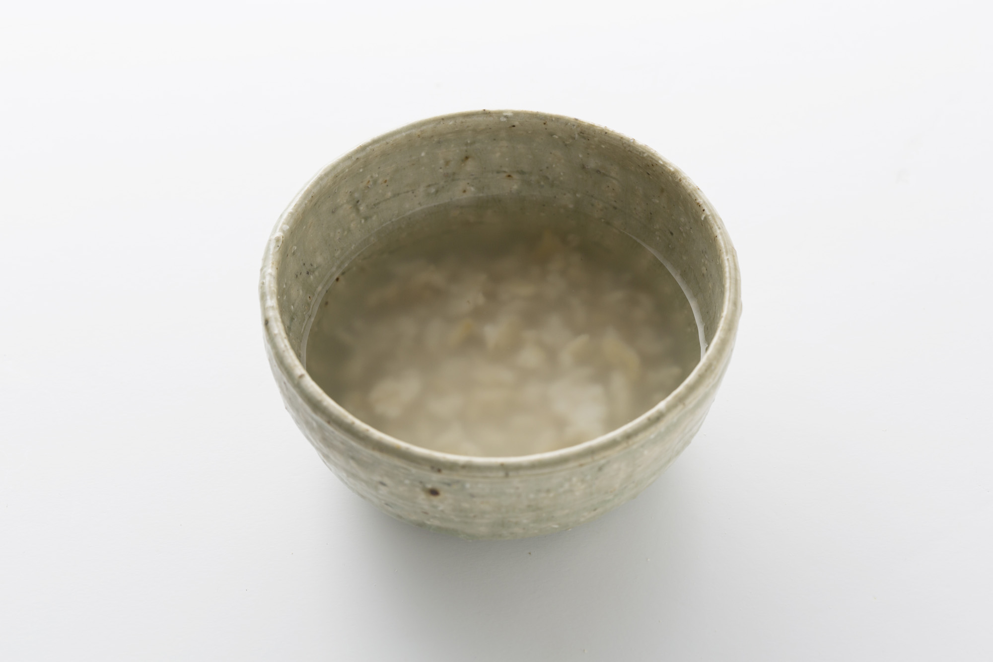 sungnyung